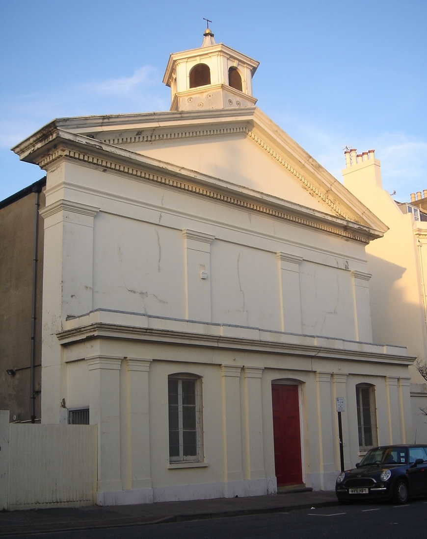 The former St Stephen's Church, Montpelier Place, Brighton, City of Brighton and Hove, England. Built elsewhere in Brighton as a ballroom, it then served as the Royal Pavilion's chapel before being moved to Montpelier Place. It was converted into a day centre in 1988. Listed at Grade II* by English Heritage (IoE code 480456)